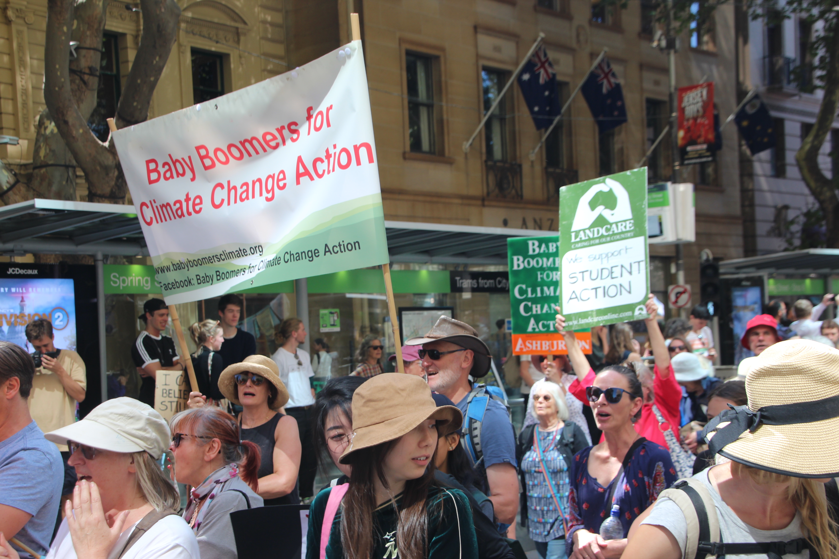 Melbourne was part of the global climate strike on March 15, drawing an enormous crowd estimated at 40,000 people, the vast majority school students. After welcome to country and some speeches at the Old Treasury Building the march wound it's way through CBD streets, down Collins Street and up Bourke street, then down to Treasury Gardens. It was a highly energetic march with the roar of chanting calling for coal, don't dig it, and for climate action now.